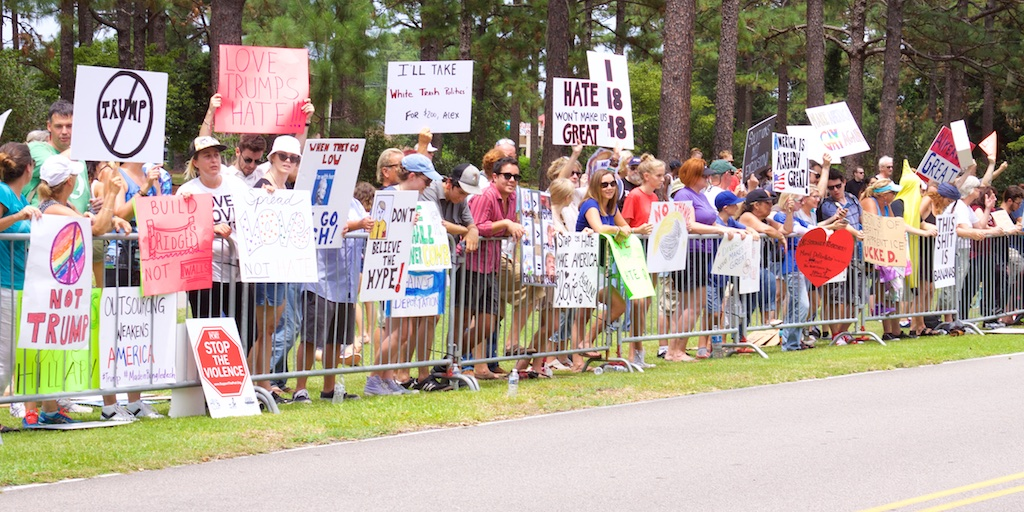 Photo captured at the August 9, 2016 campaign event held in Wilmington, NC at UNC-Wilmington's Trask Coliseum. Supports and protesters gathered outside the stadium before the speech.